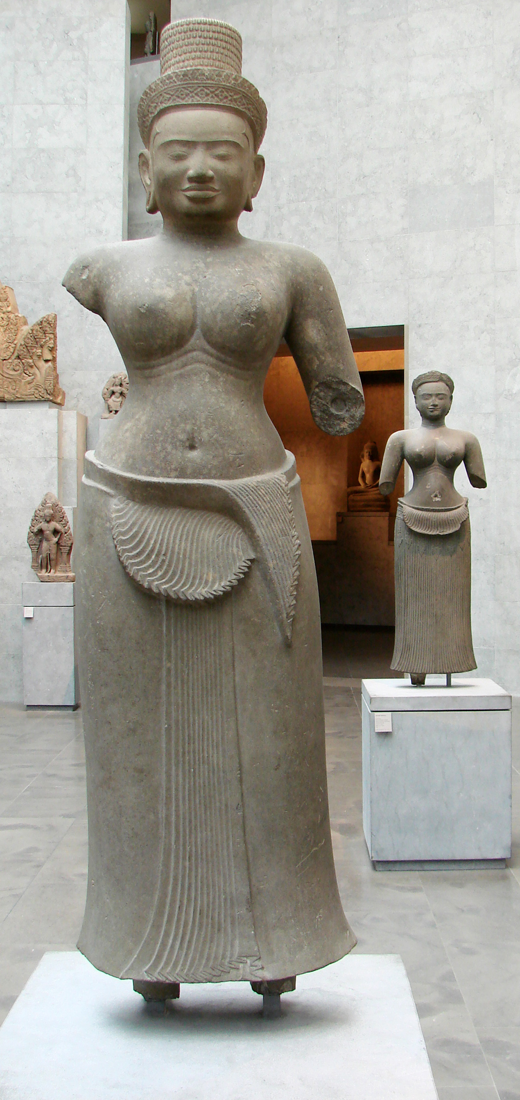 Goddess. Cambodia, Siemreap, Bakong, Preah Ko style, end of the 9th century, sandstone. Musée guimet, Paris.